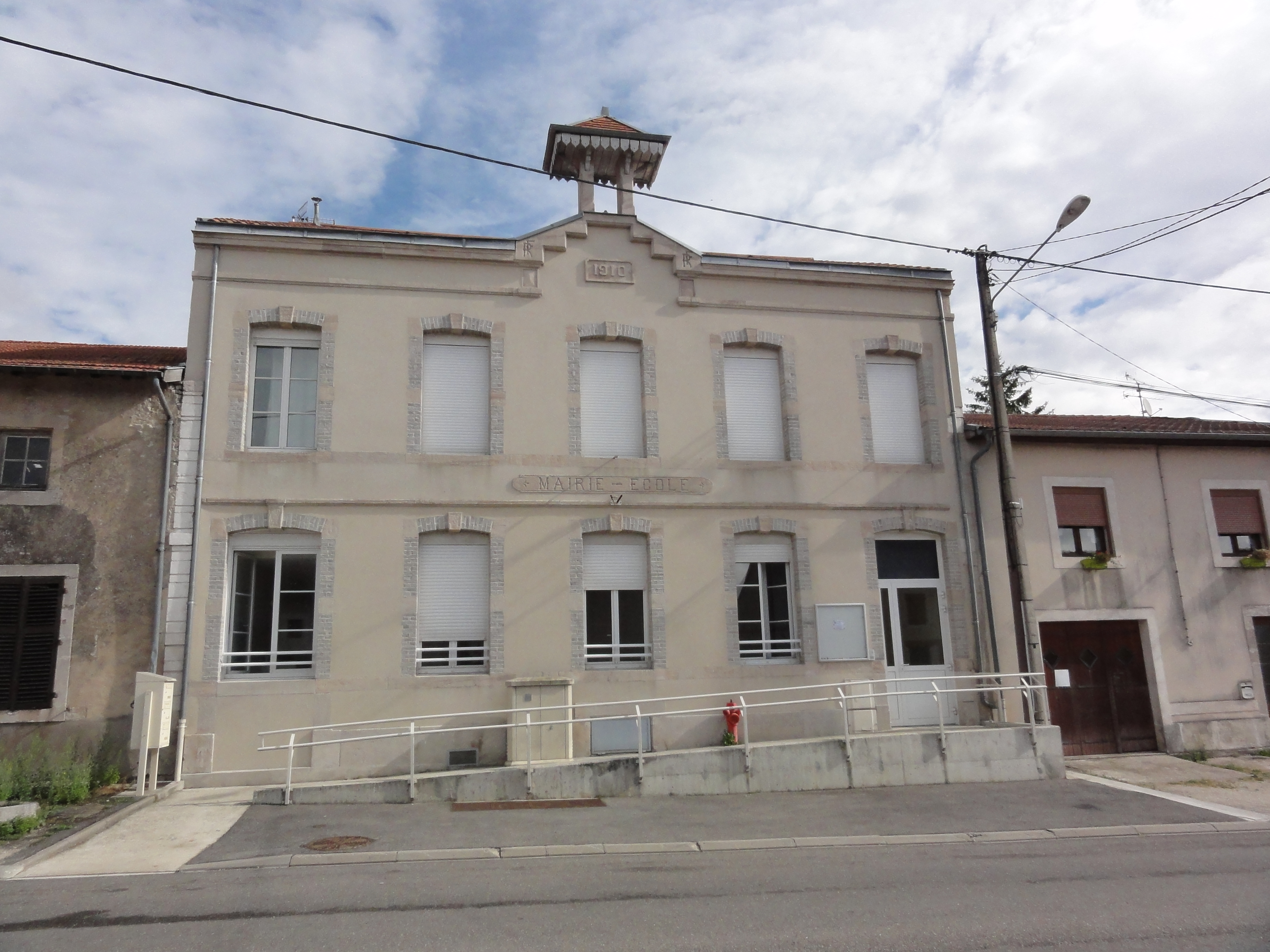 Ménil-la-Horgne (Meuse) mairie-école